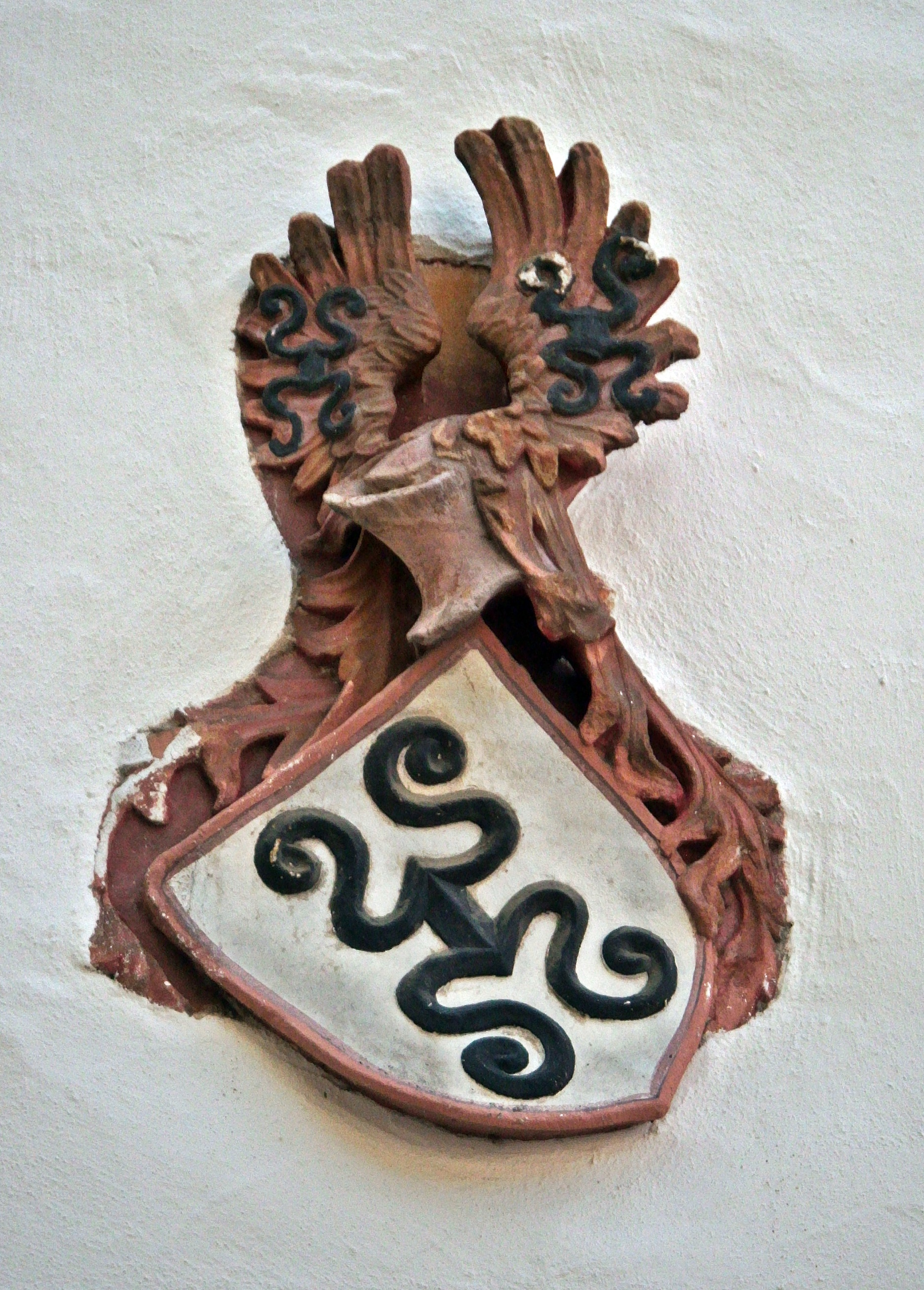 Wappen des Adelsgeschlechtes der Herren von Dürckheim, auch Eckbrecht von Dürckheim oder Dürckheim-Montmartin. Wappenstein um 1500, an der St. Georgskirche, Wachenheim an der Weinstraße